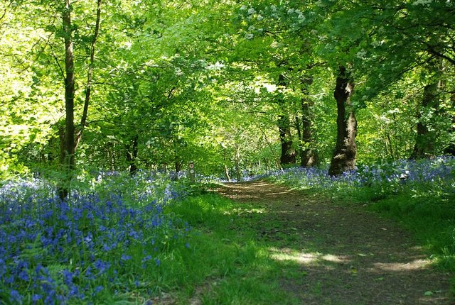 Saltwells Nature Reserve Path through Saltwells Wood.